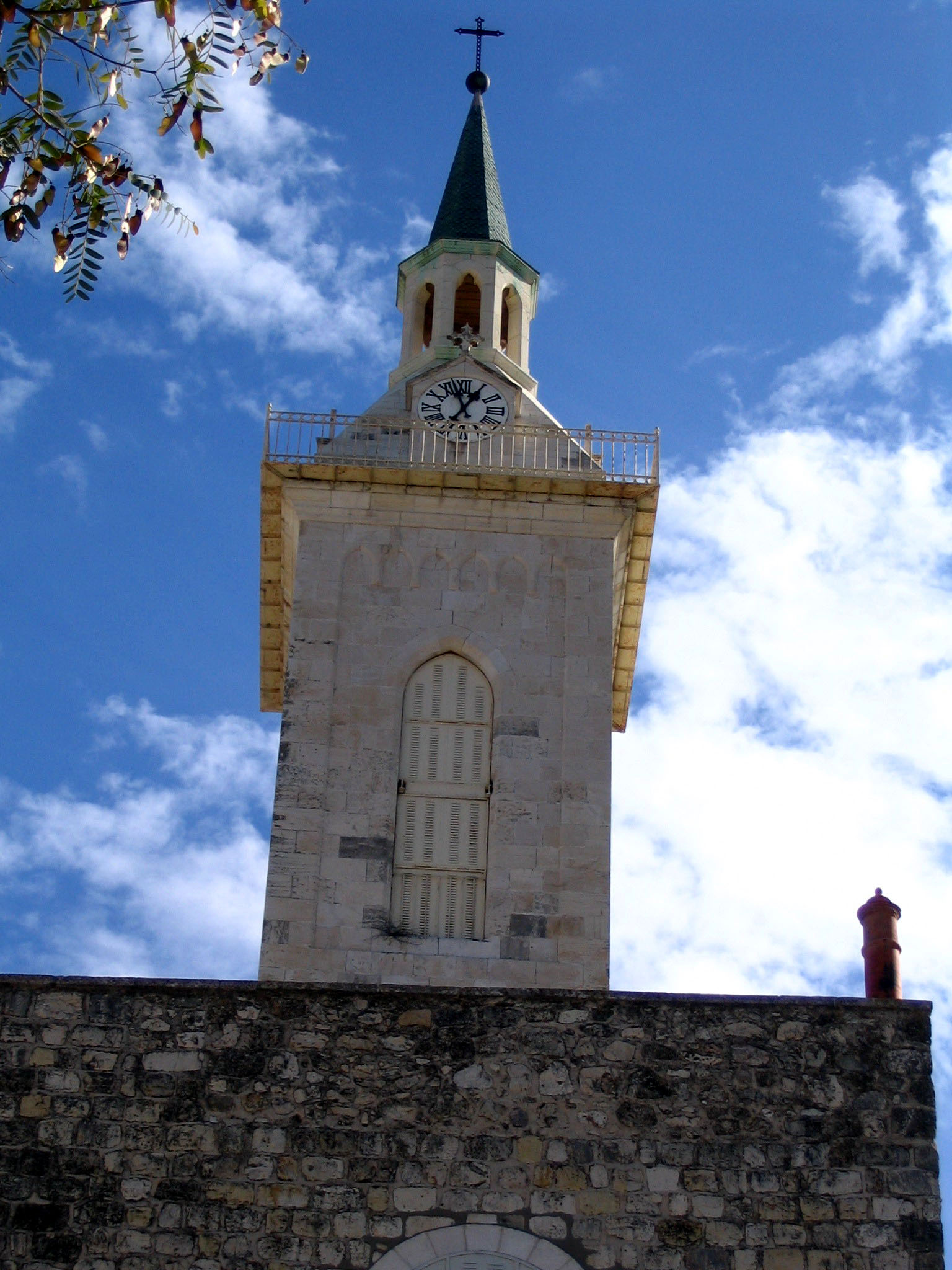 Ein Kerem, St John ba Harim